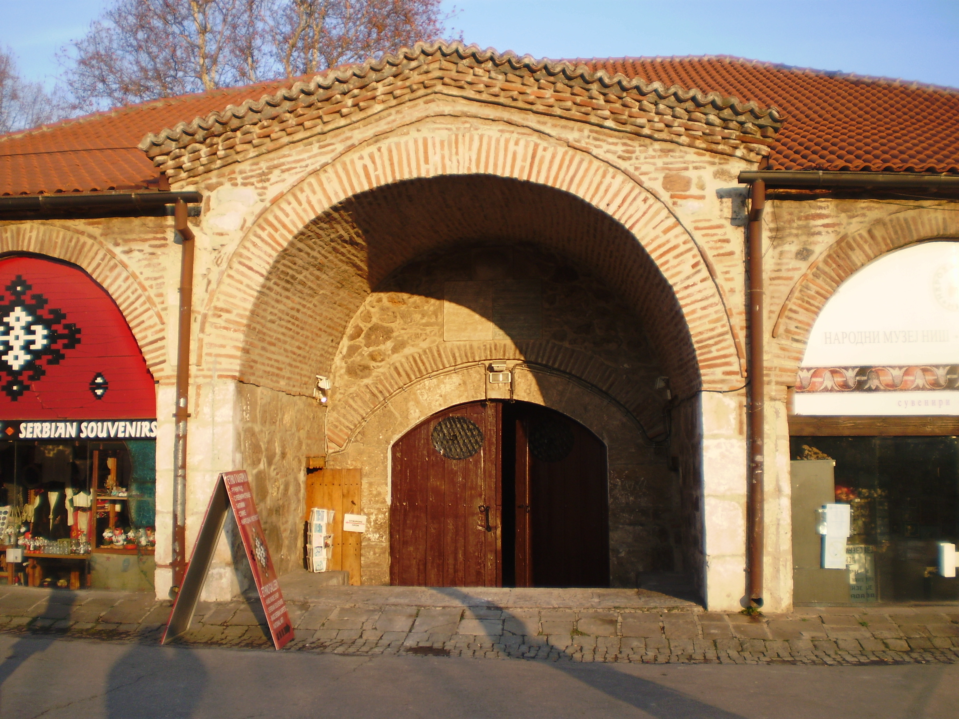 The Gallery of Contemporary Fine Arts Niš, Serbia-Pavillion the Fortress (a former Turkish arsenal). Srpski (latinica): GSLU Niš, Paviljon u Niškoj tvrđavi (nekadašnji turski arsenal).